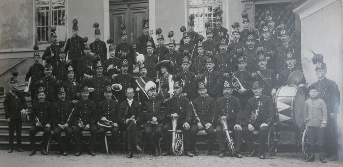 Salinenmusikkapelle Hall in Tirol 1921